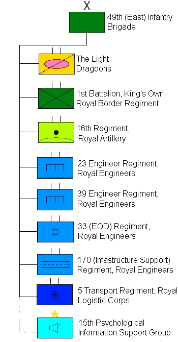 49th (East) Infantry Brigade (United Kingdom) [Regular Units]